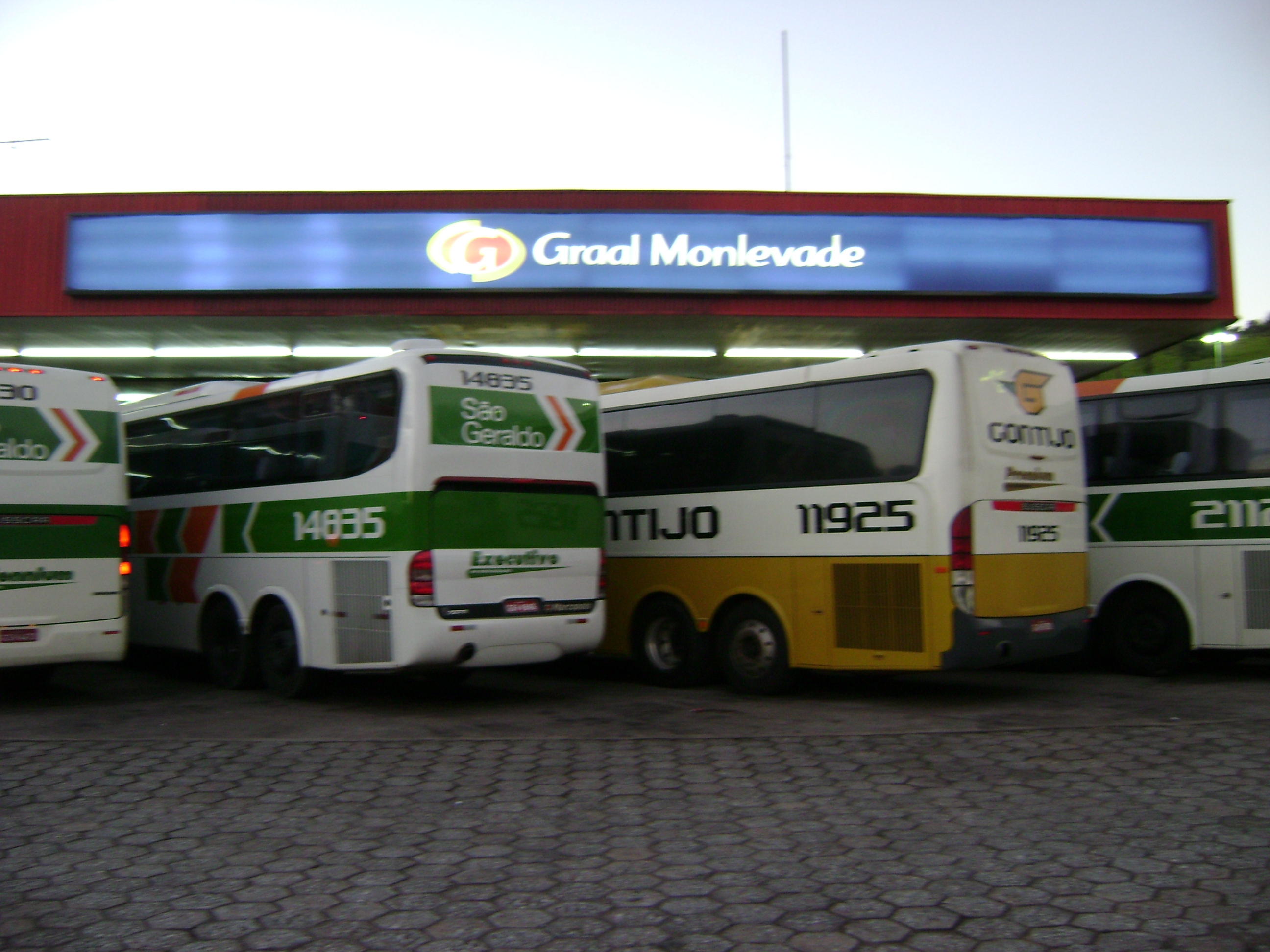 Graal Shopping in João Monlevade, Minas Gerais, Brazil.